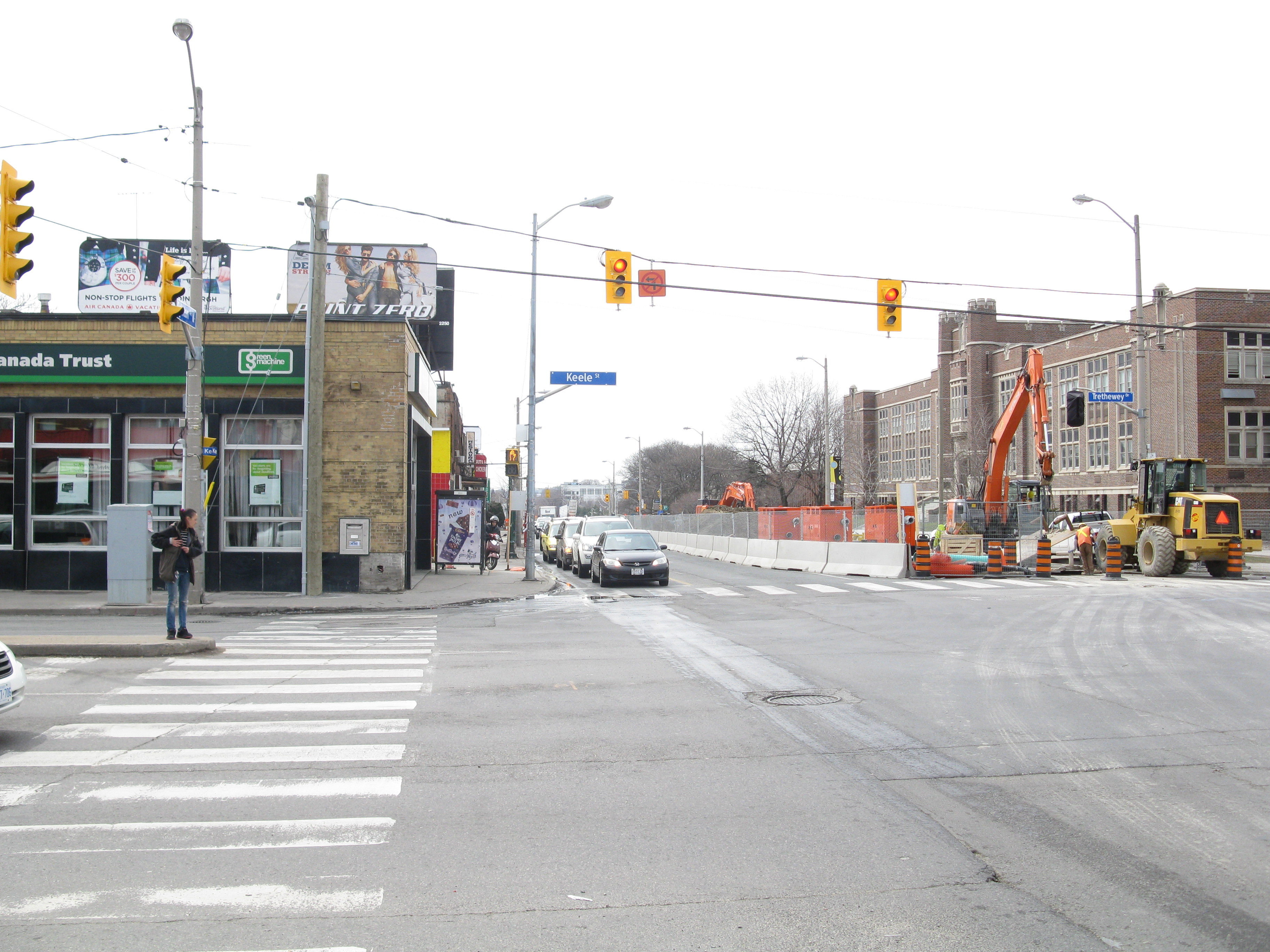 Intersection of Eglinton and Keele -- future site of a below grade Eglinton Crosstown LRT. On April 9, 2013, the day the first tunnel boring machine started to bore the Eglinton Crosstown, I bought a TTC day pass and got off to take "before" pictures of the site of every future underground station between Mount Dennis and Yonge Street. I plan to return for "after" pictures when the Crosstown opens in 2020.